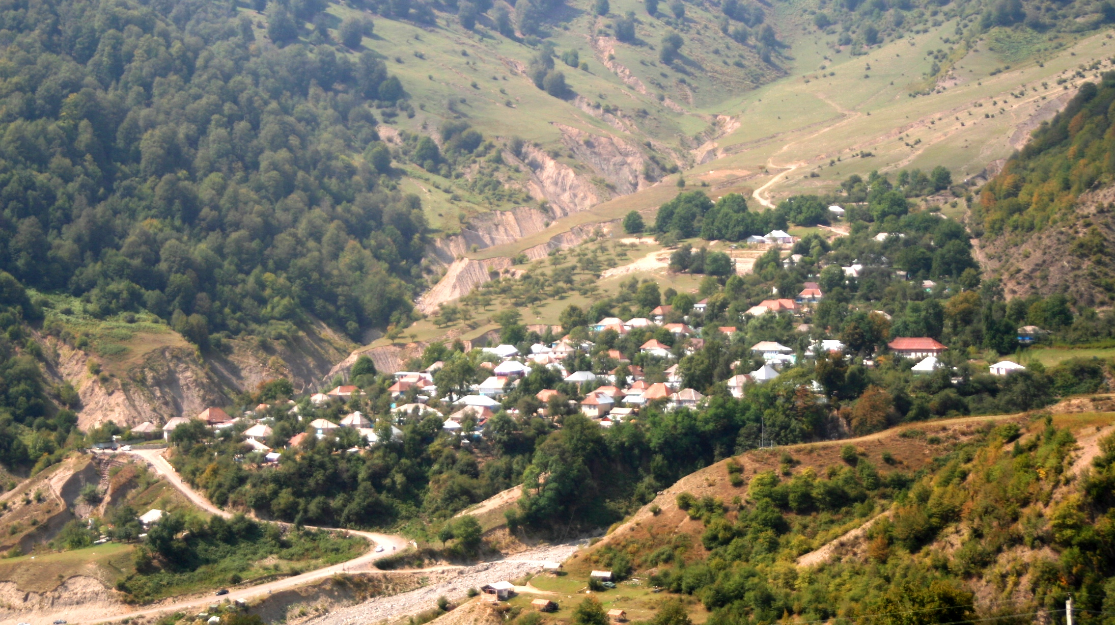 View of Laza village in Gabala District of Azerbaijan